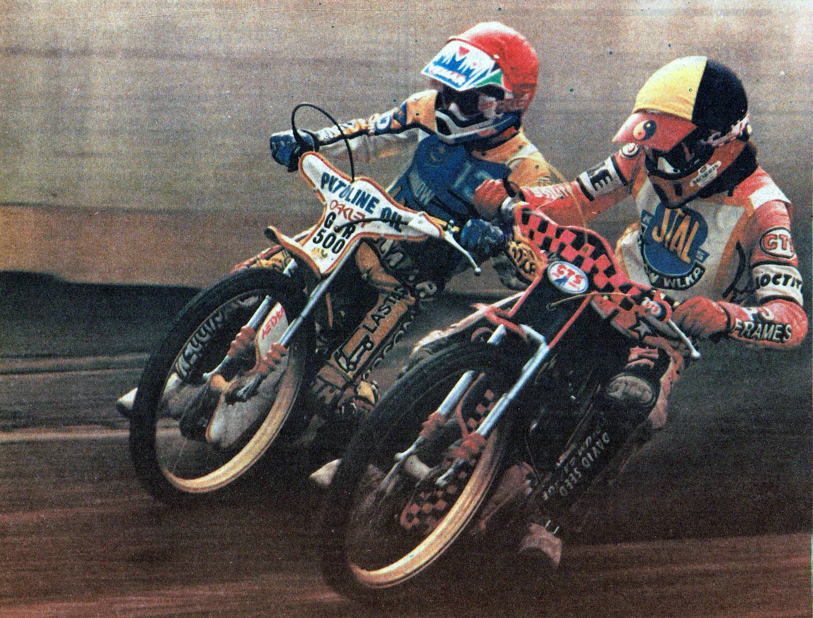 Gert Handberg and Gary Havelock. Speedway. Polish league, 1993.